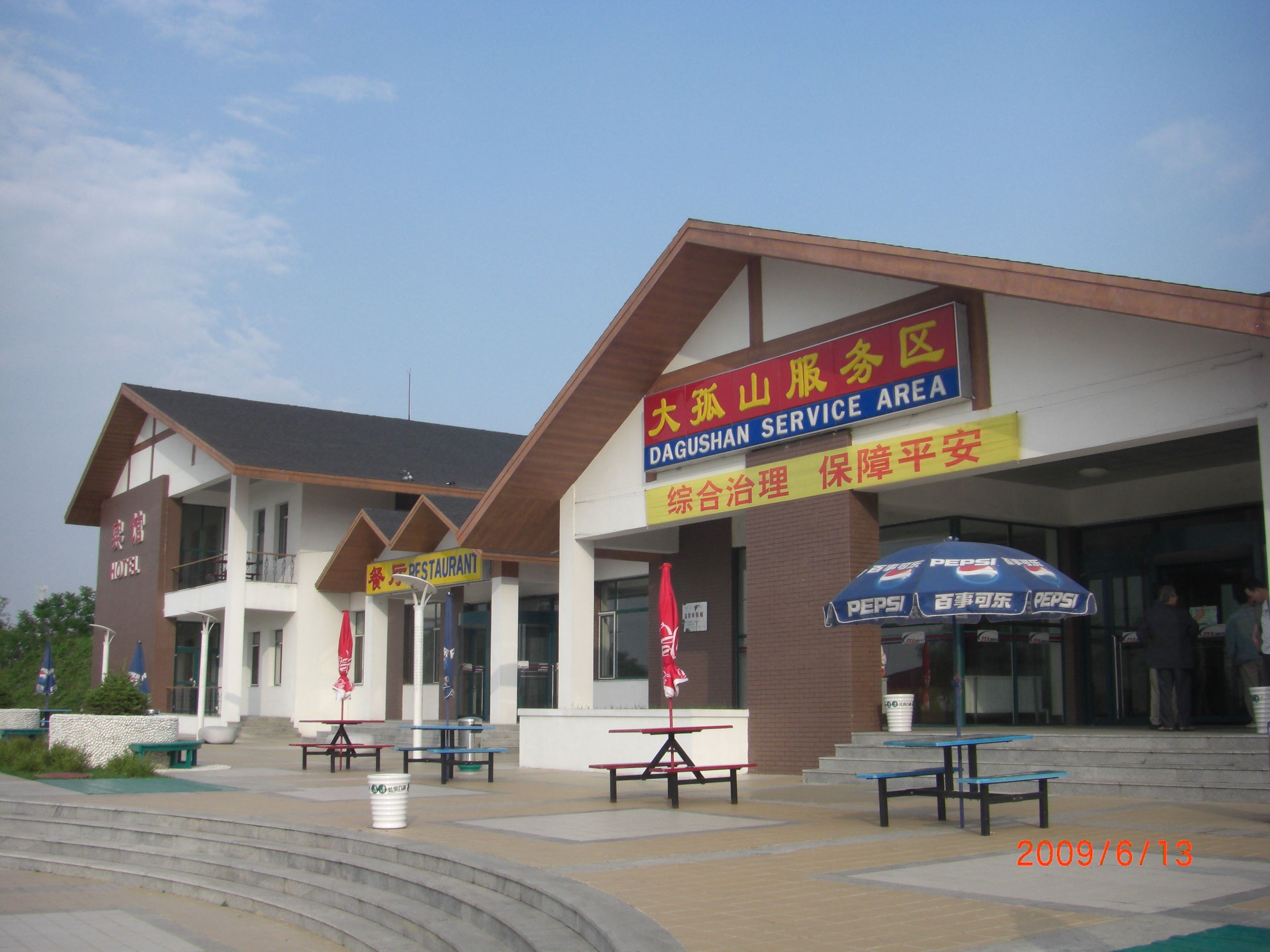 DAGUSHAN SERVICE EREA AT DANDA HIGHTWAY